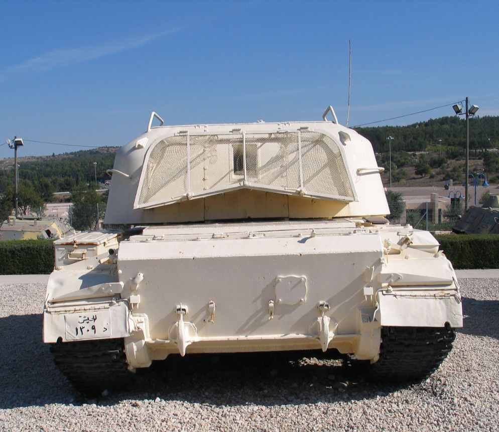 Description: Soviet ZSU-57-2 self propelled air defence cannon in Yad la-Shiryon Museum, Israel. 2005. Source: Photo by me, User:Bukvoed.